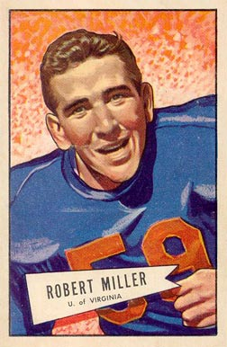 American football player Bob Miller (American football) on a 1952 Bowman Large card.